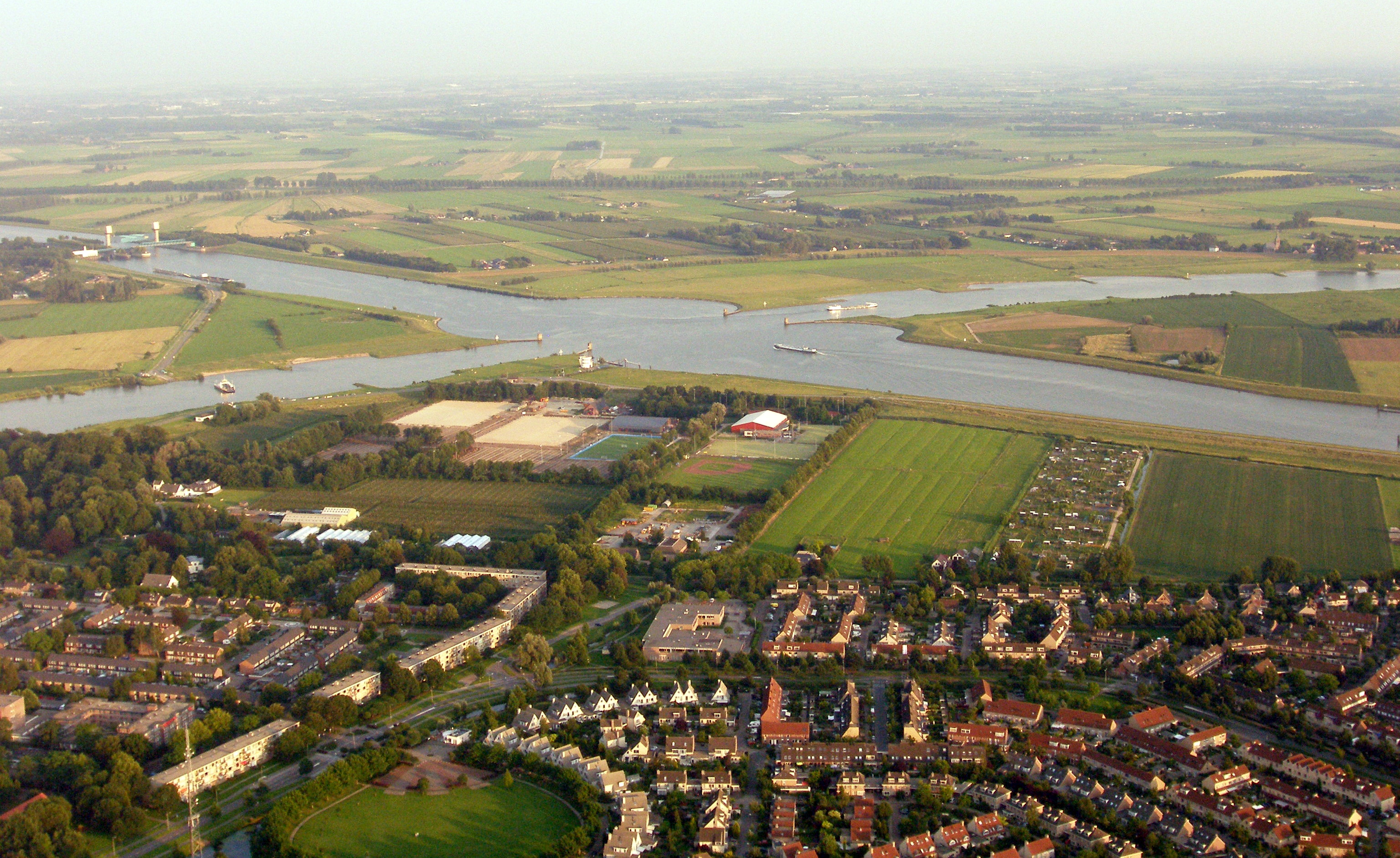 Crossing of the Lek River (bottom left to top right) and the Amsterdam-Rhine Canal (top left to bottom right). The buildings are part of Wijk bij Duurstede.